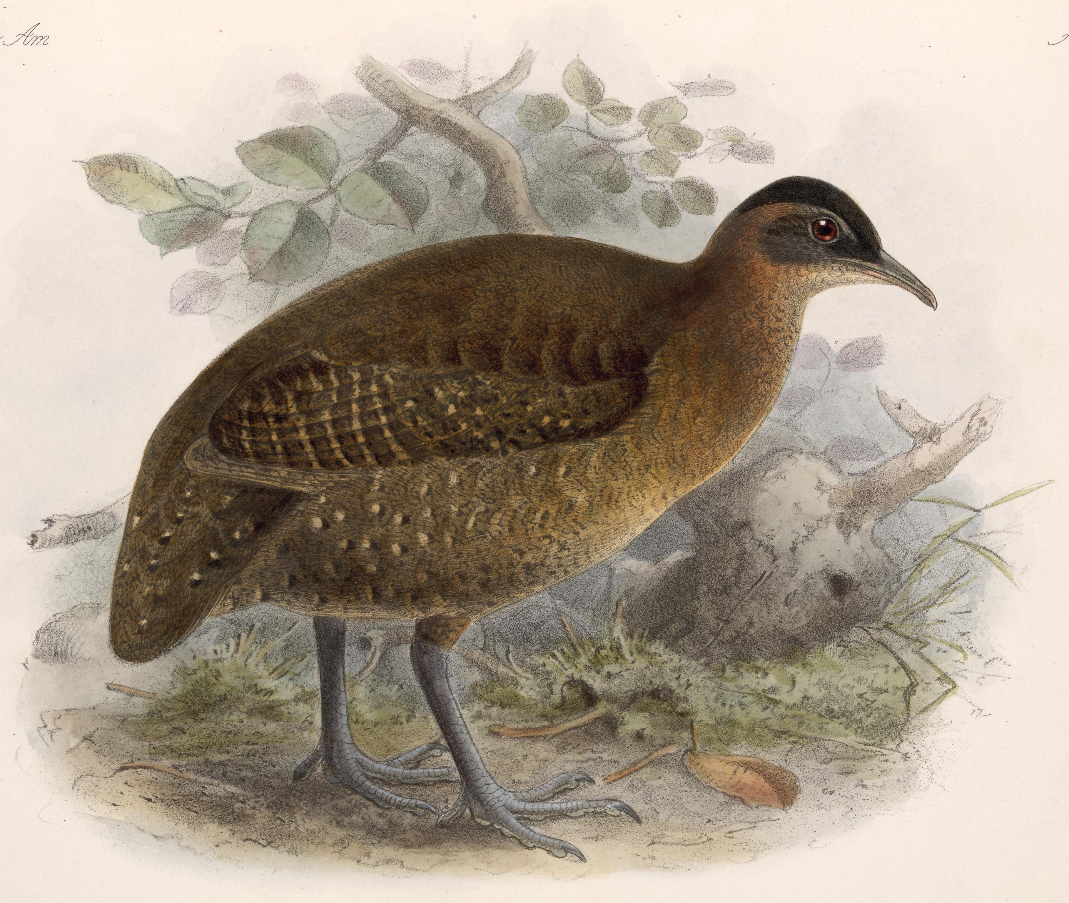 « Nothocercus bonapartii » = Nothocercus bonapartei (Highland Tinamou)